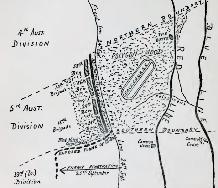 Sketch of the vicinity of Polygon Wood before the Battle of Polygon Wood, 26 September 1917